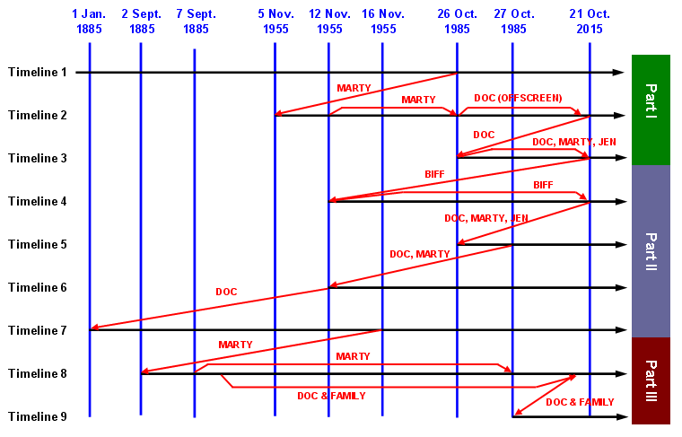 A chart of the chronology of the W:Back to the Future trilogy